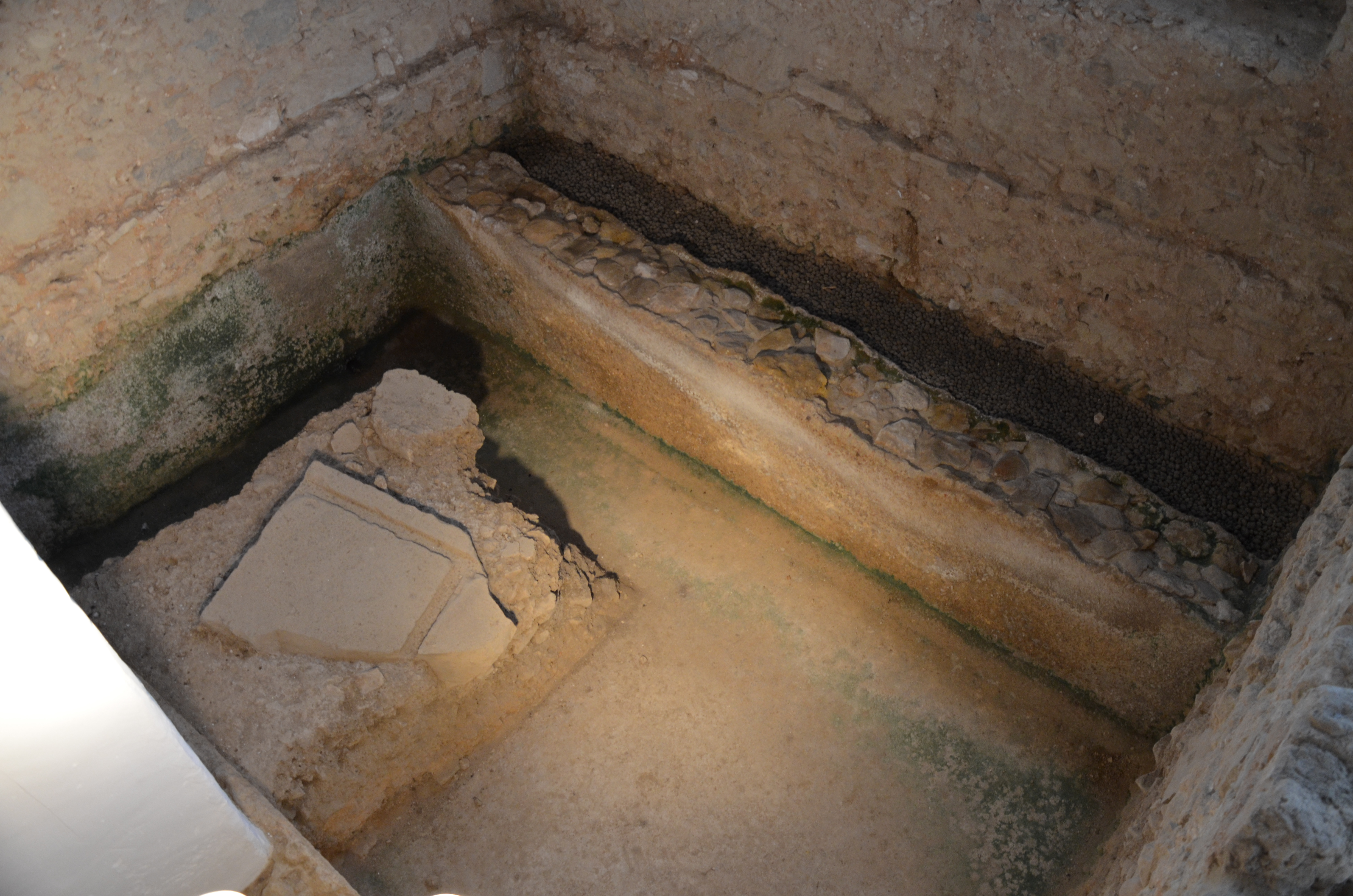 The Roman Ruins of Milreu, a of a luxurious rural villa, transformed into a prosperous farm in the 3rd century, Portugal